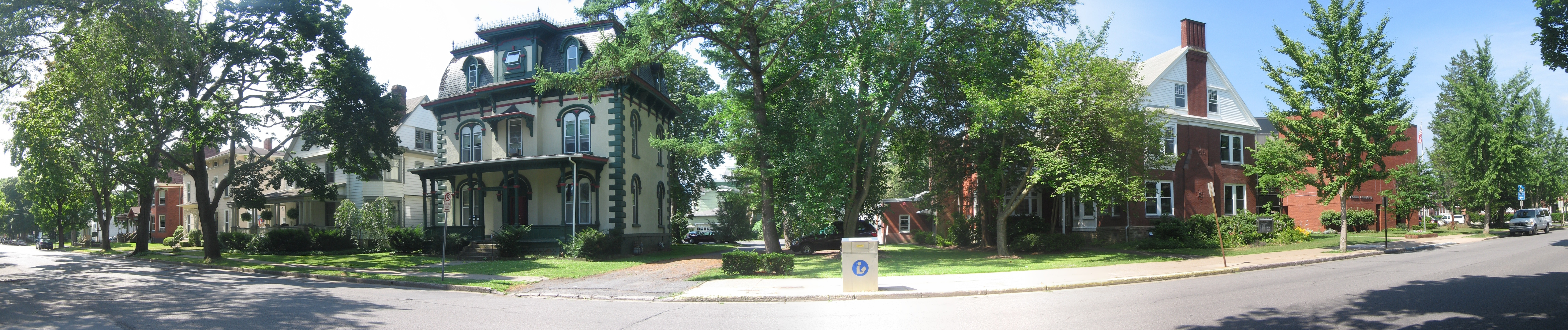 200 block of West Main Street in Lock Haven, Clinton County, Pennsylvania, USA. The Annie Halenbake Ross Library is at left (red brick house and modern brick building).